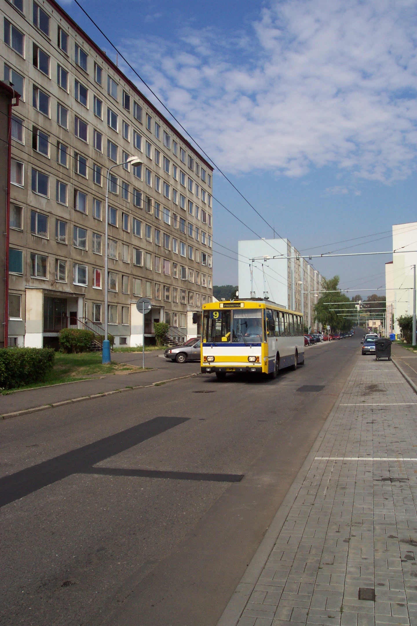 Teplice, Czech republic, trolleybus type Škoda 14Tr - Teplice, trolejbus typu Škoda 14Tr